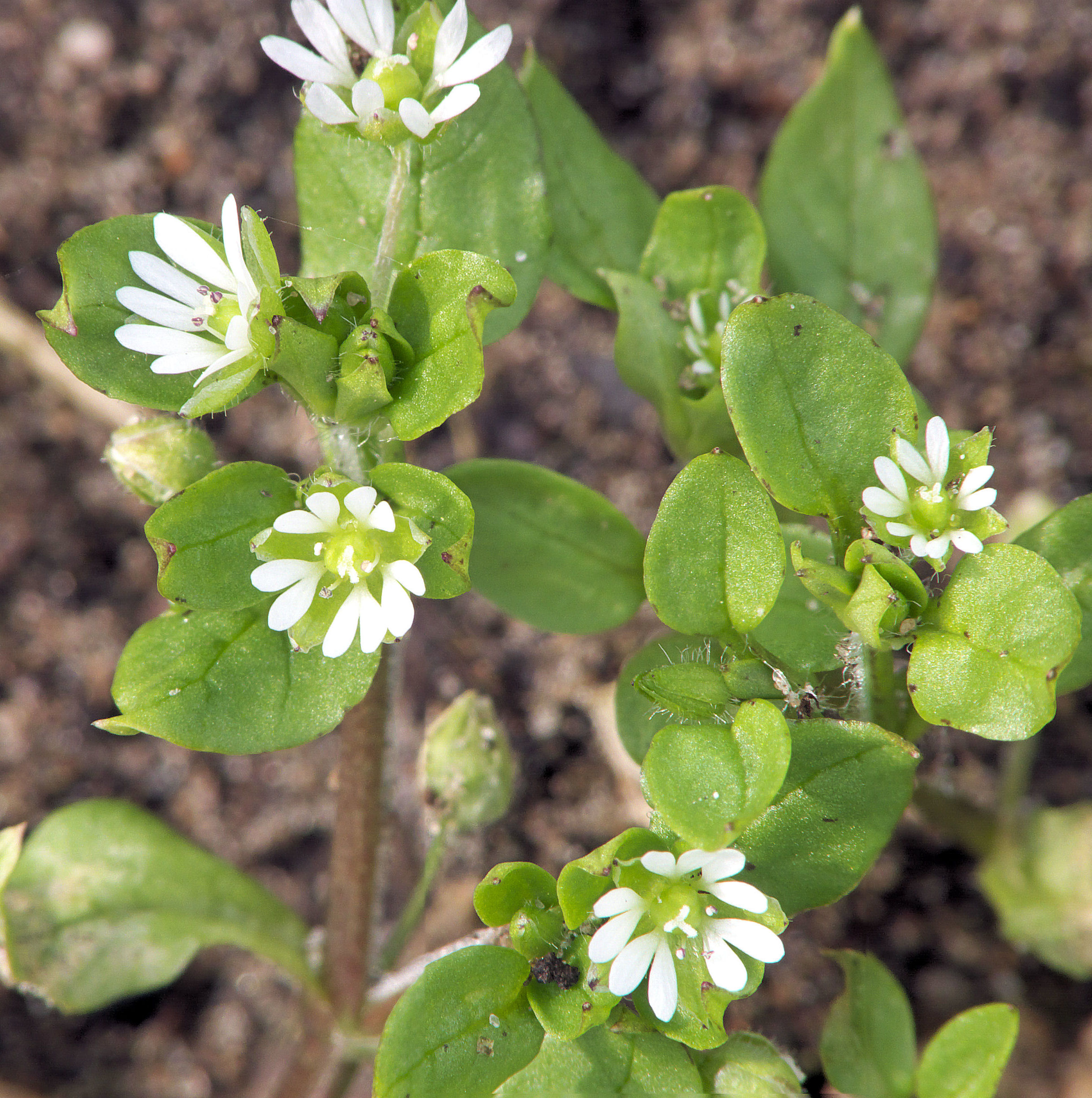 Stellaria media